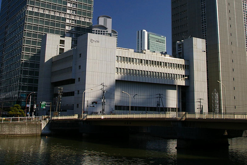 NTT Telepark Dojima, no-3 Bldg, Osaka city, Japan